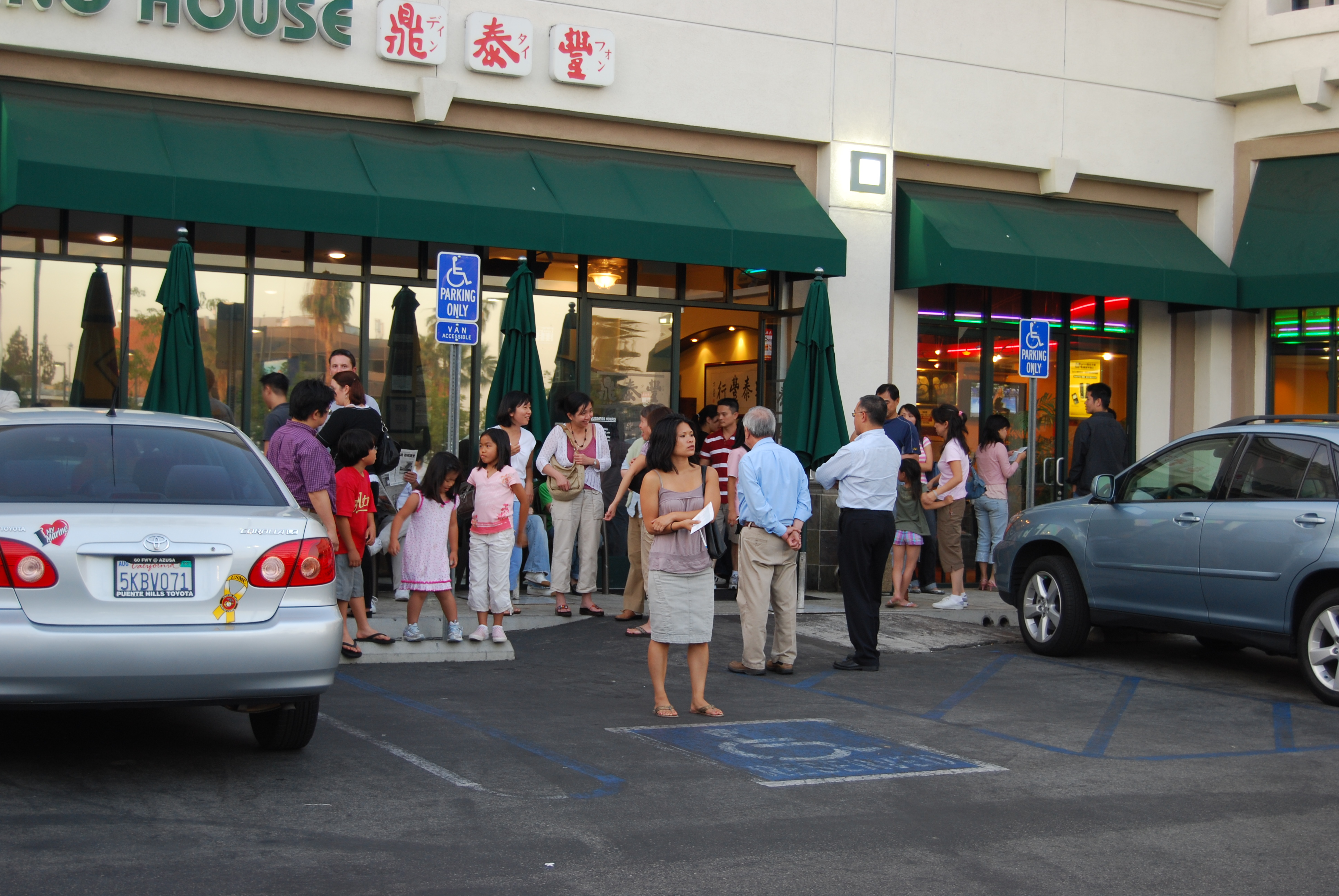 Not us. No Din Tai Fung for us.